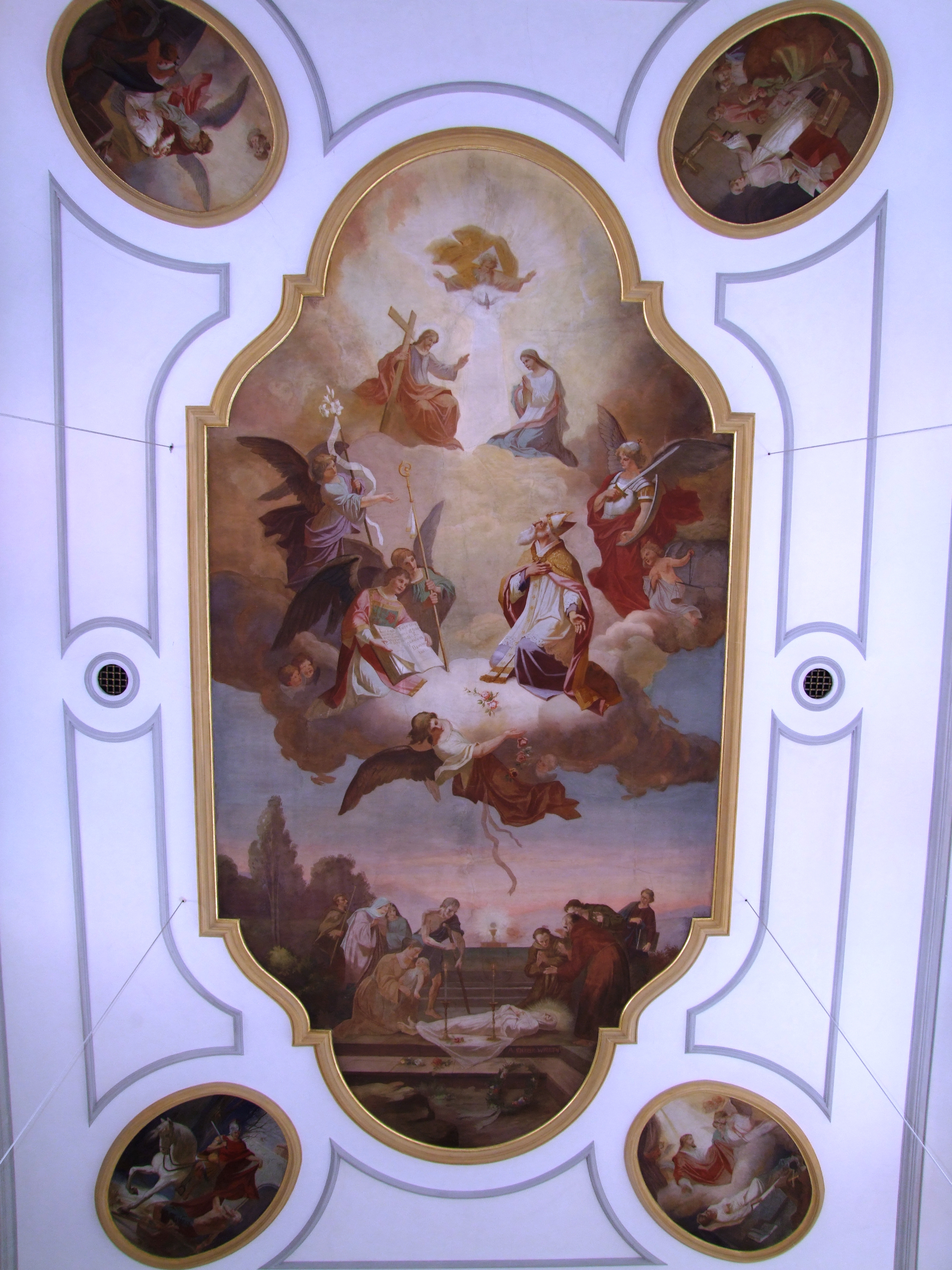 St. Martin, Illertissen: Deckenfresken im Hauptschiff. August Müller-Warth (1864–1943) Alternative names Augustin Müller-Warth; August MüllerDescriptionSwiss painterDate of birth/death 19 June 1864 15 August 1943Location of birth/death Warth (heute zu Warth-Weiningen TG) Wil SGAuthority control : Q23700529 VIAF: 11144782943102030734 ISNI: 0000 0004 5296 0927 GND: 107806959X SIKART: 4026076 creator QS:P170,Q23700529